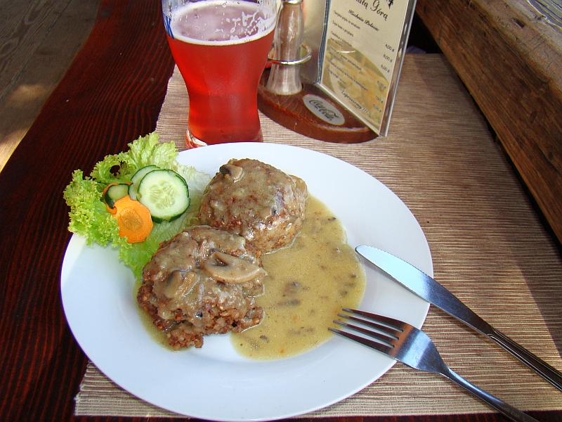 Pork-Buckwheat burgers aka Hreczki